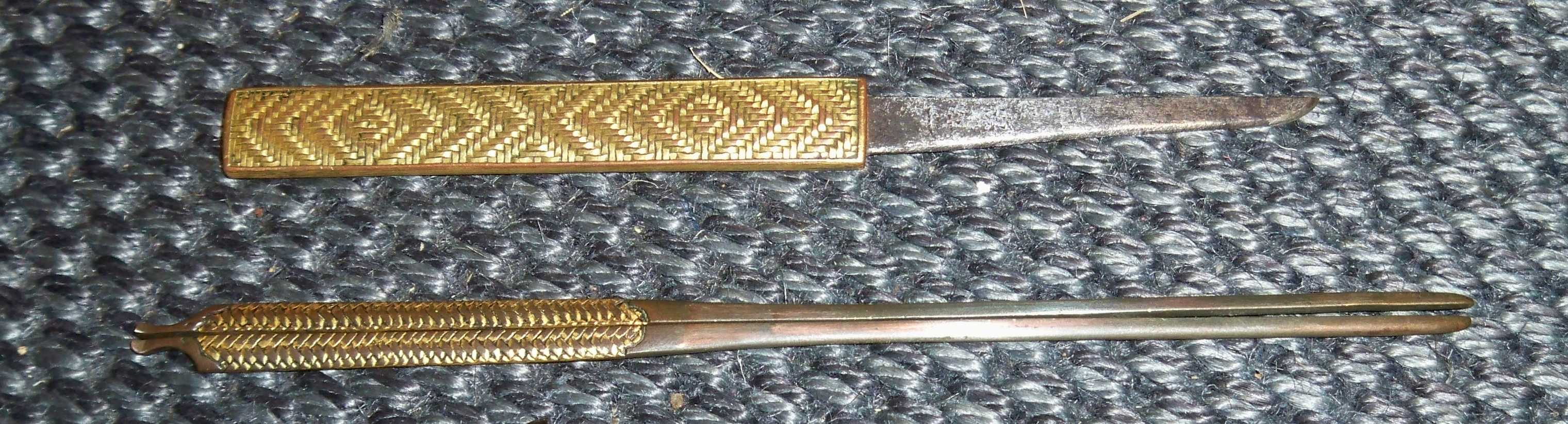 Antique Japanese kogatana and kogai.